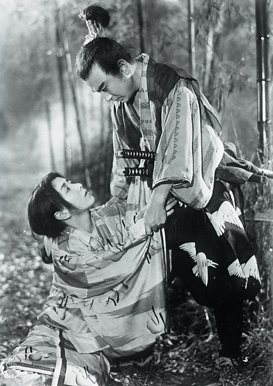 Chikako Miyagi and Chiezō Kataoka in Miyamoto Musashi: Ichijō-ji kettō (宮本武蔵 一乗寺決闘) directed by Hiroshi Inagaki - 1942